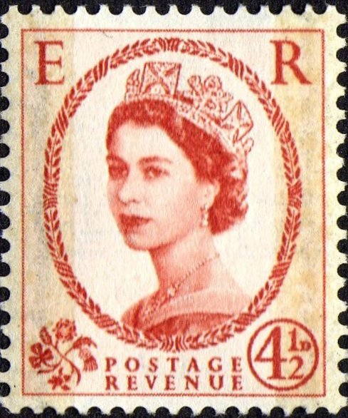 1959 tagged 4 1/2 pence Wilding stamp clearly showing two tagged line on vertical sides; printed by Harrison